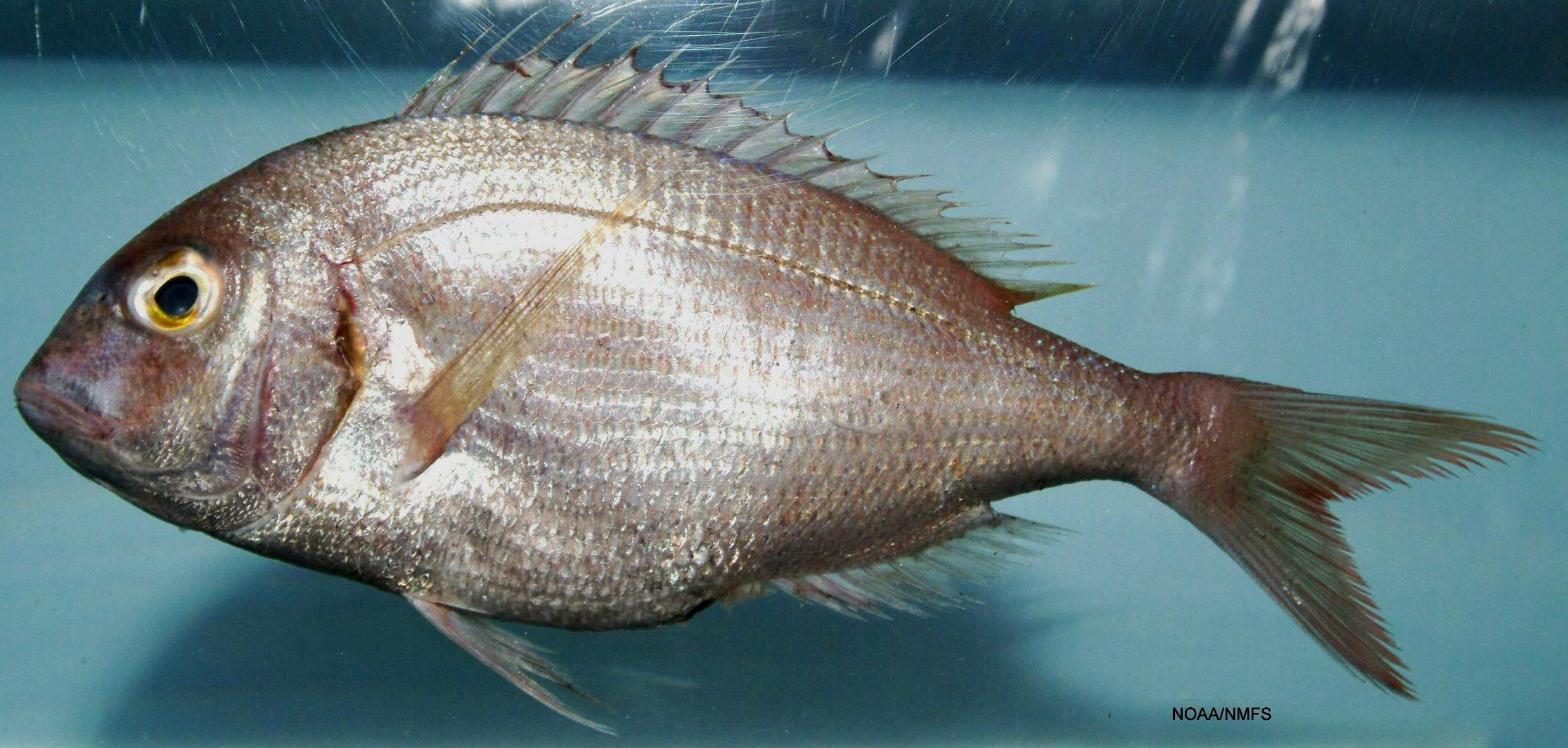 Common seabream or red porgy (Pagrus pagrus) from the Gulf of Mexico